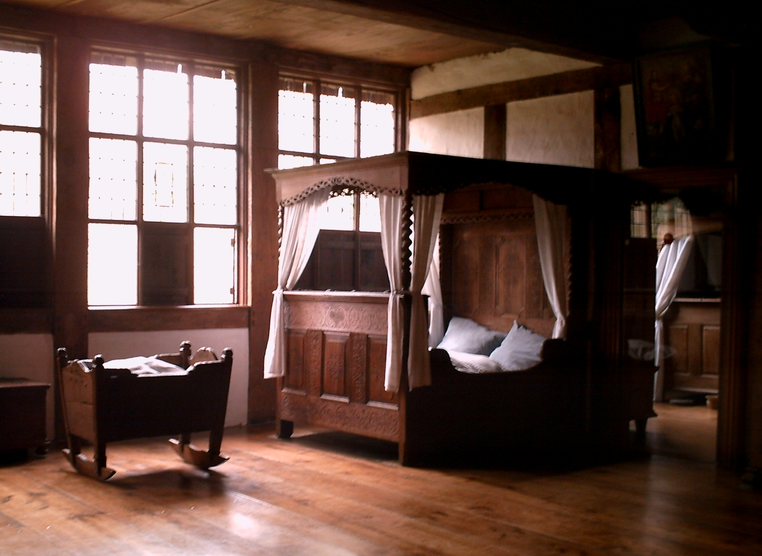 Westfälisches Freilichtmuseum in Detmold / Germany